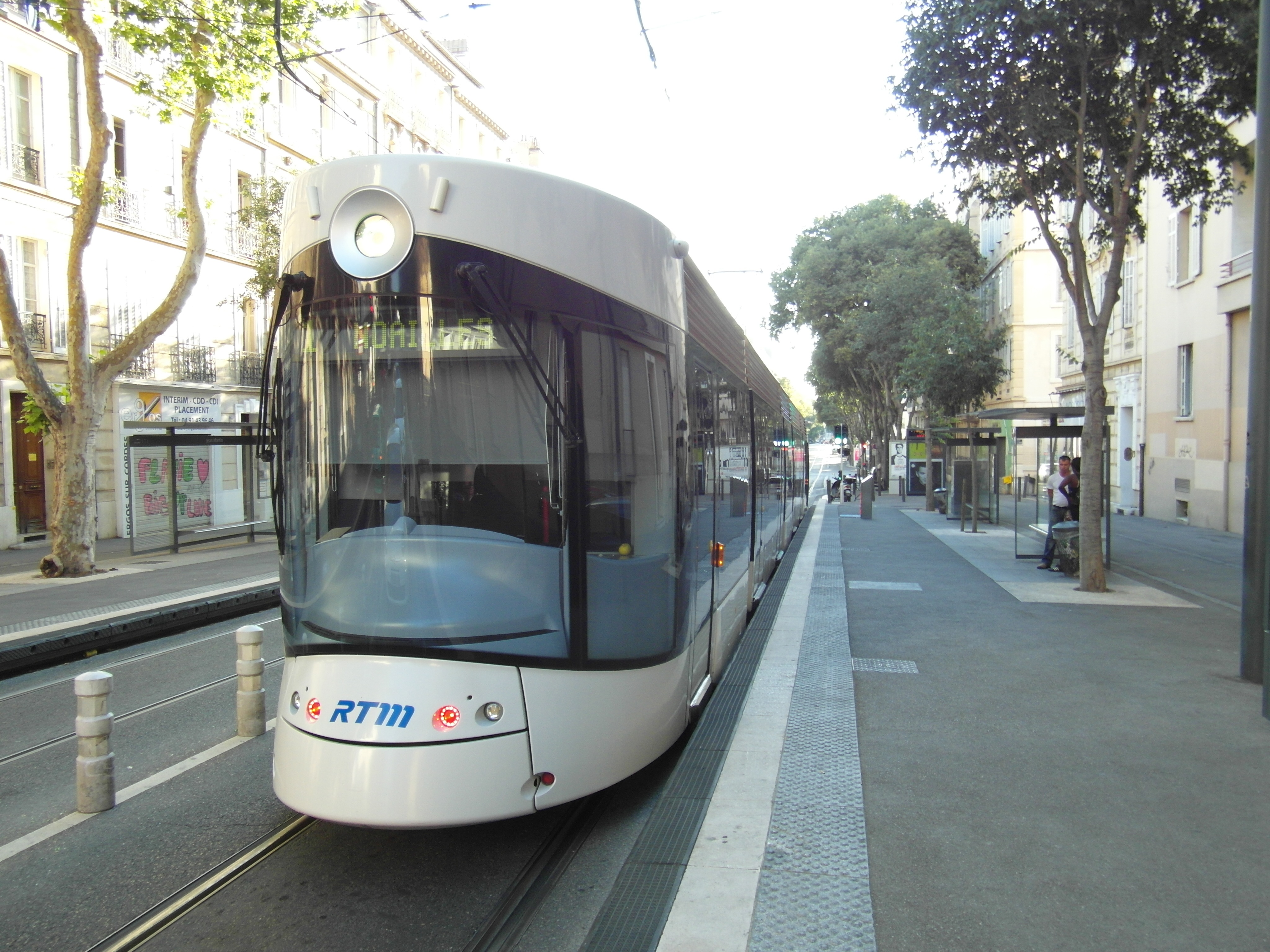 Marseille - Tramway - Boulevard Chave